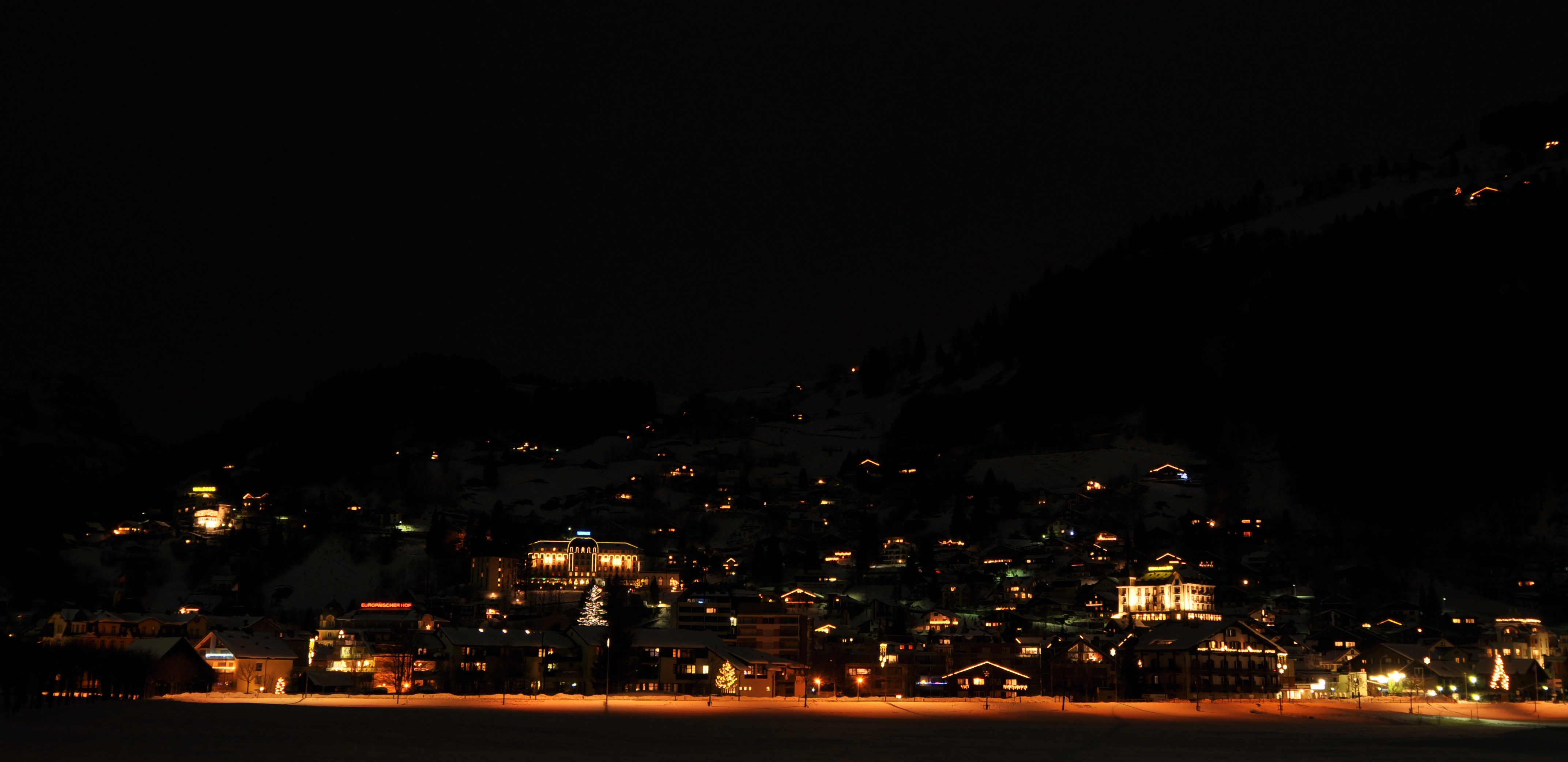 Engelberg at night